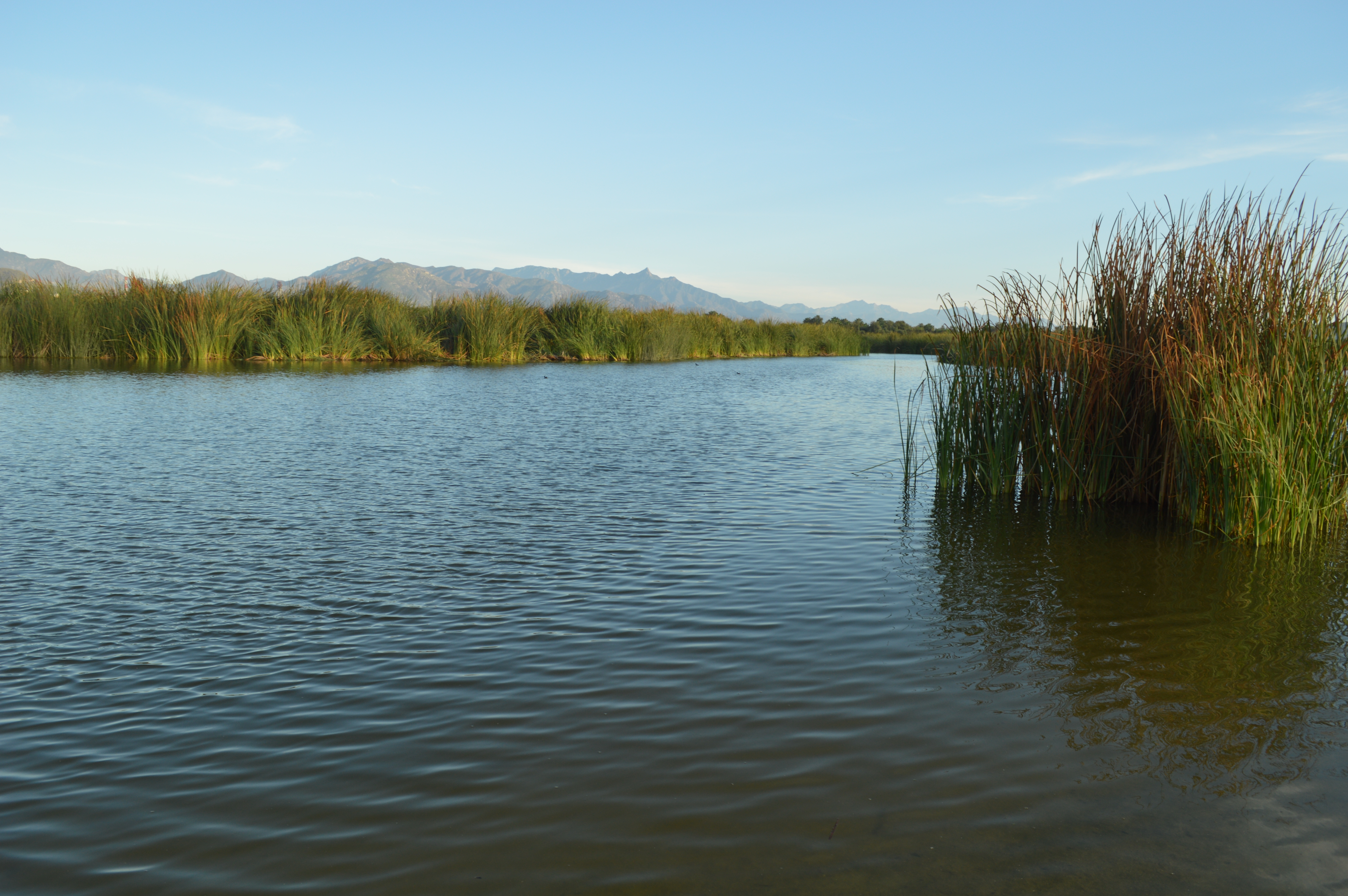 View of the San Jose Estuary from the sand bar that separates it from the sea in San Jose del Cabo, Baja California Sur